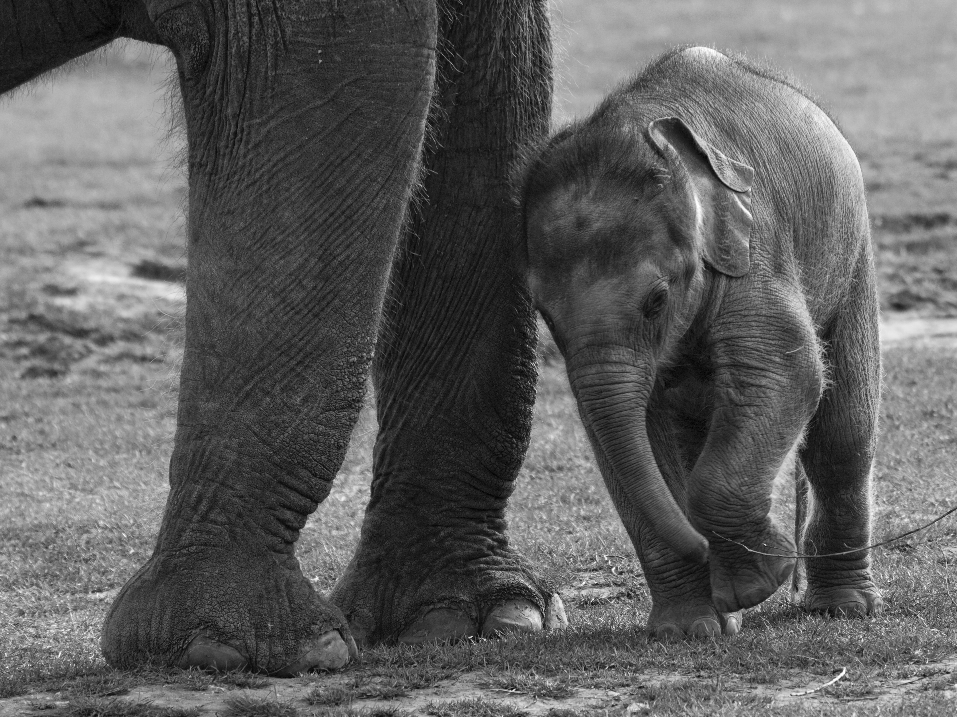 Baby asian elephant with its mother at Whipsnade Zoo, Dunstable